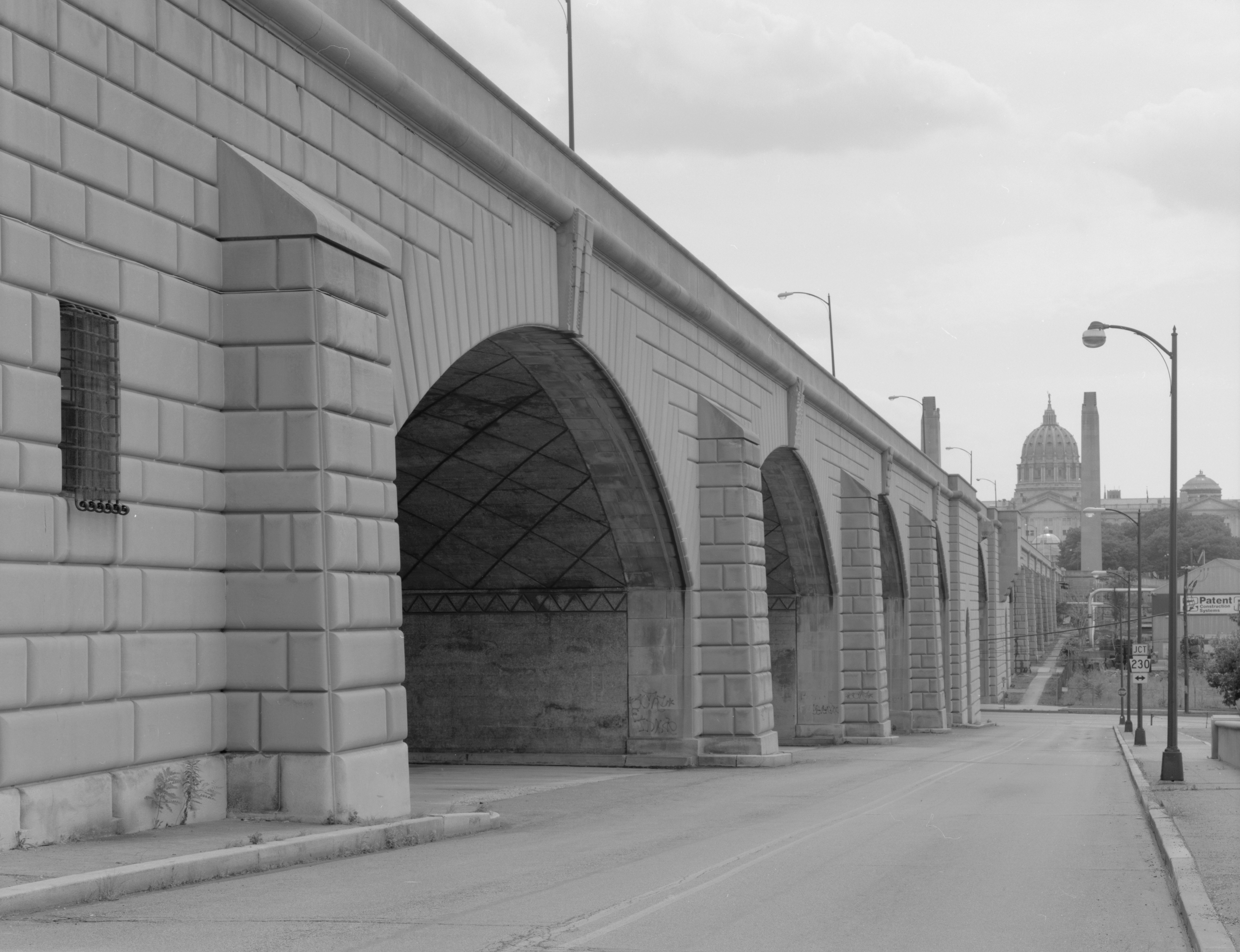 The State Street Bridge in Harrisburg, Pennsylvania with the Pennsylvania State Capitol. Original number was "HAER PA,22-HARBU,28-6", original caption was "Barrel view looking east, showing columns and state capitol."